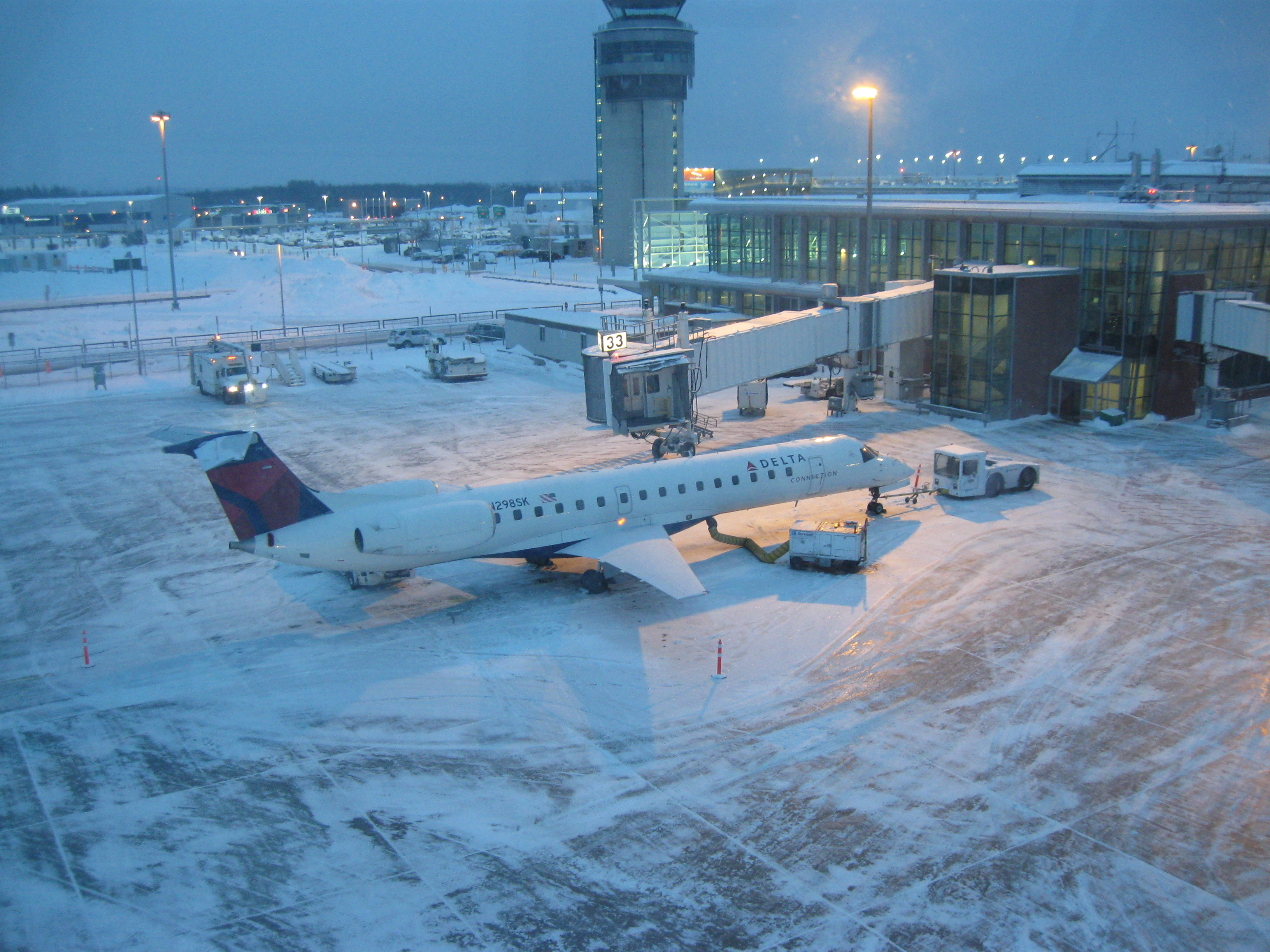 A gated Embraer-145 during winter period at quebec.